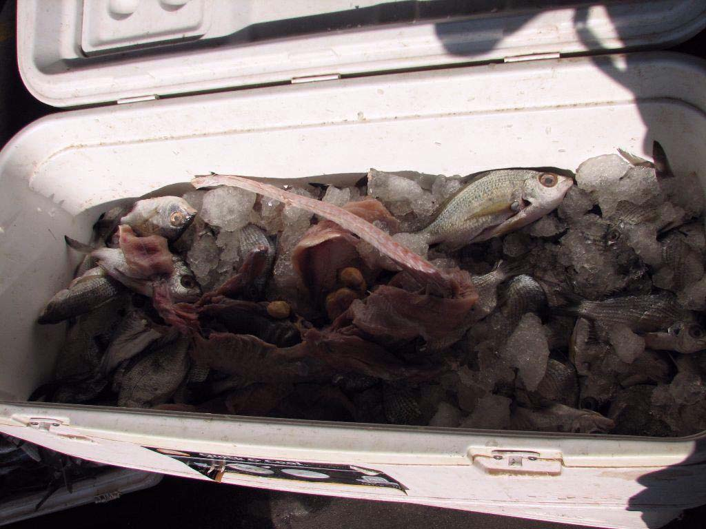 U.S. Customs and Border Protection officials seized this iguana meat on June 7, 2011, when Elidoro Soria Fonseca tried to smuggle it into the U.S. at the Otay Mesa Port of Entry. He had 159 pounds of the meat in his vehicle. (U.S. Customs and Border Protection photo)